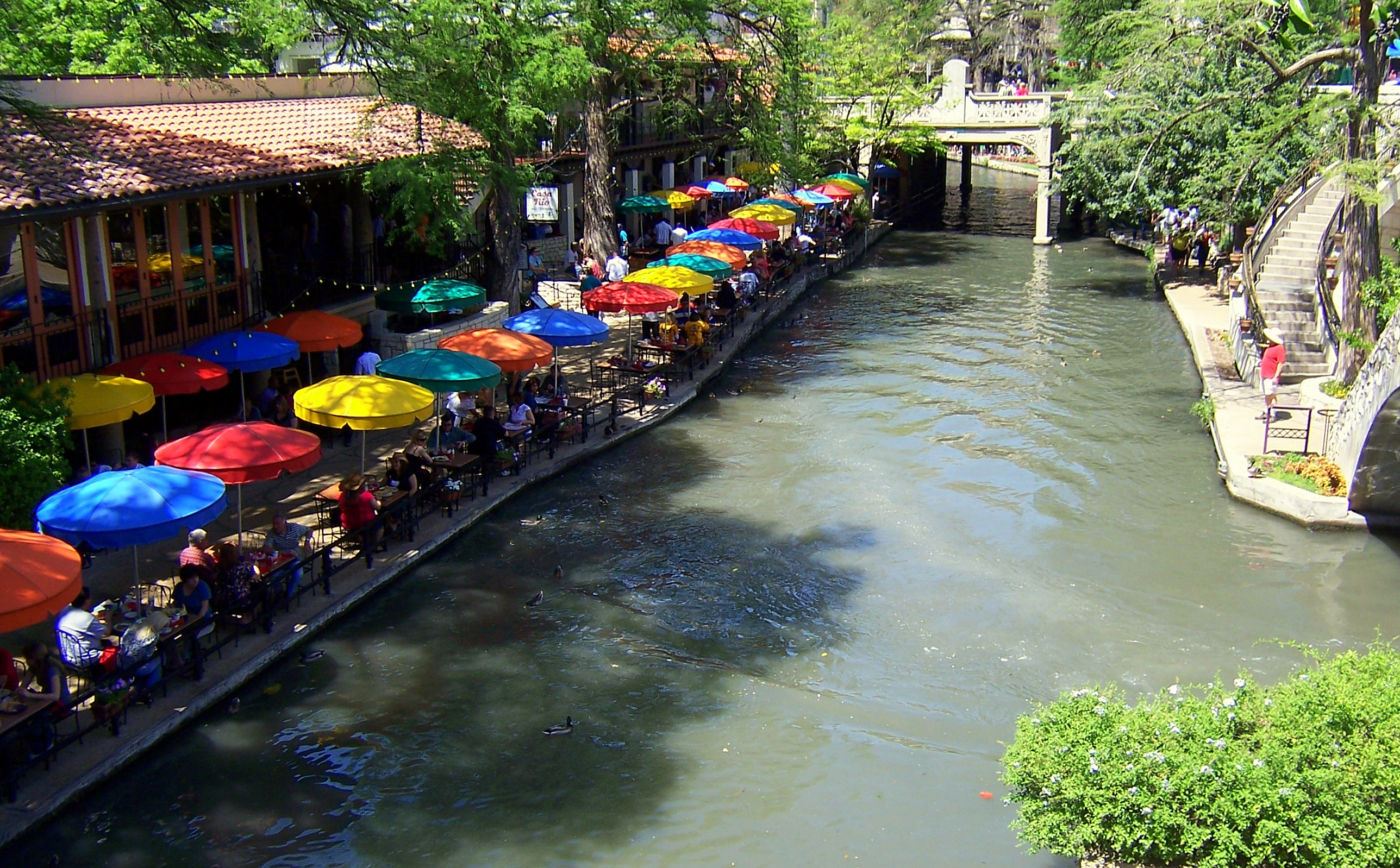 Casa Rio restaurant along the shores of the San Antonio River Walk.